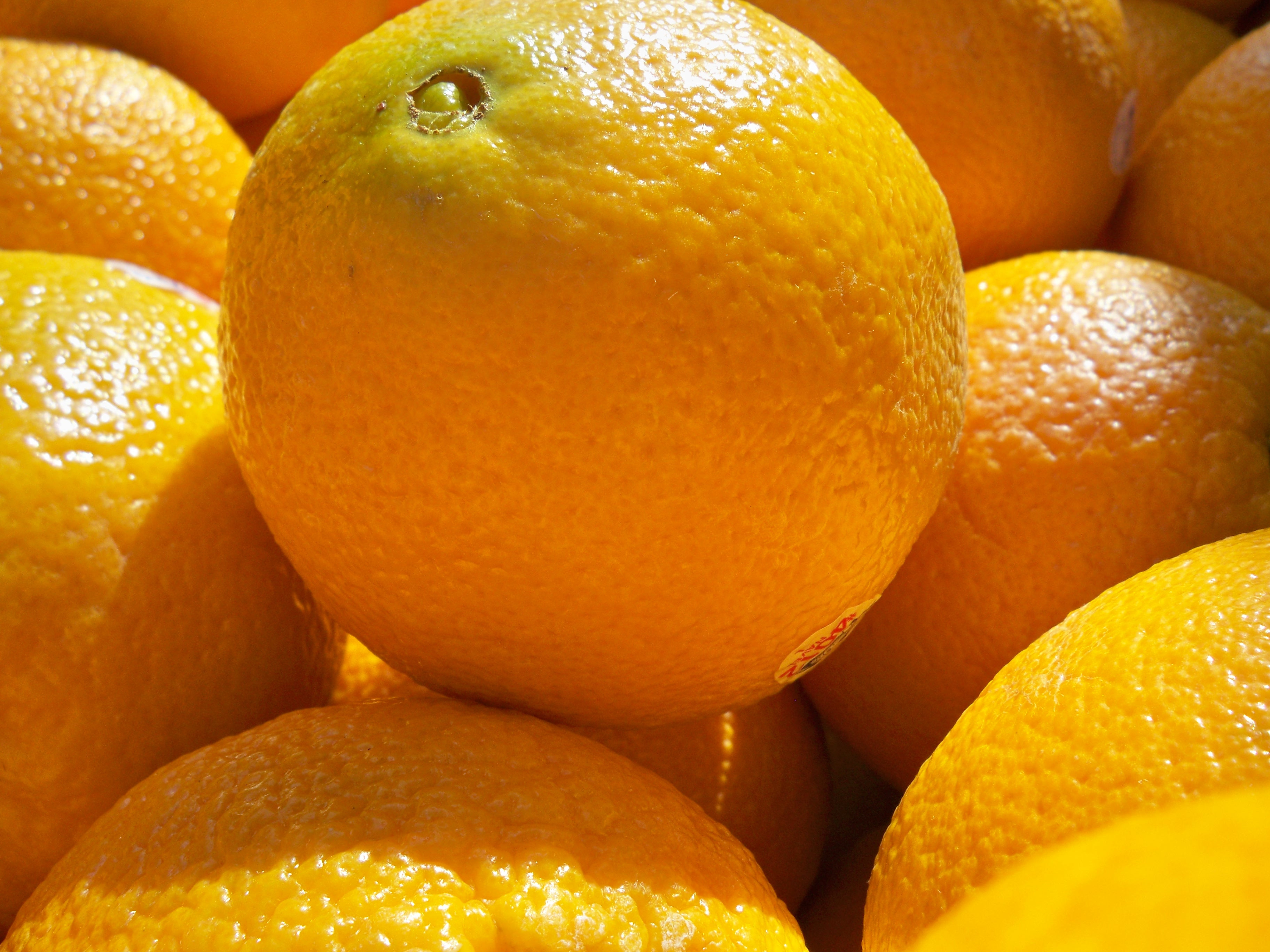 Navel oranges at a market.